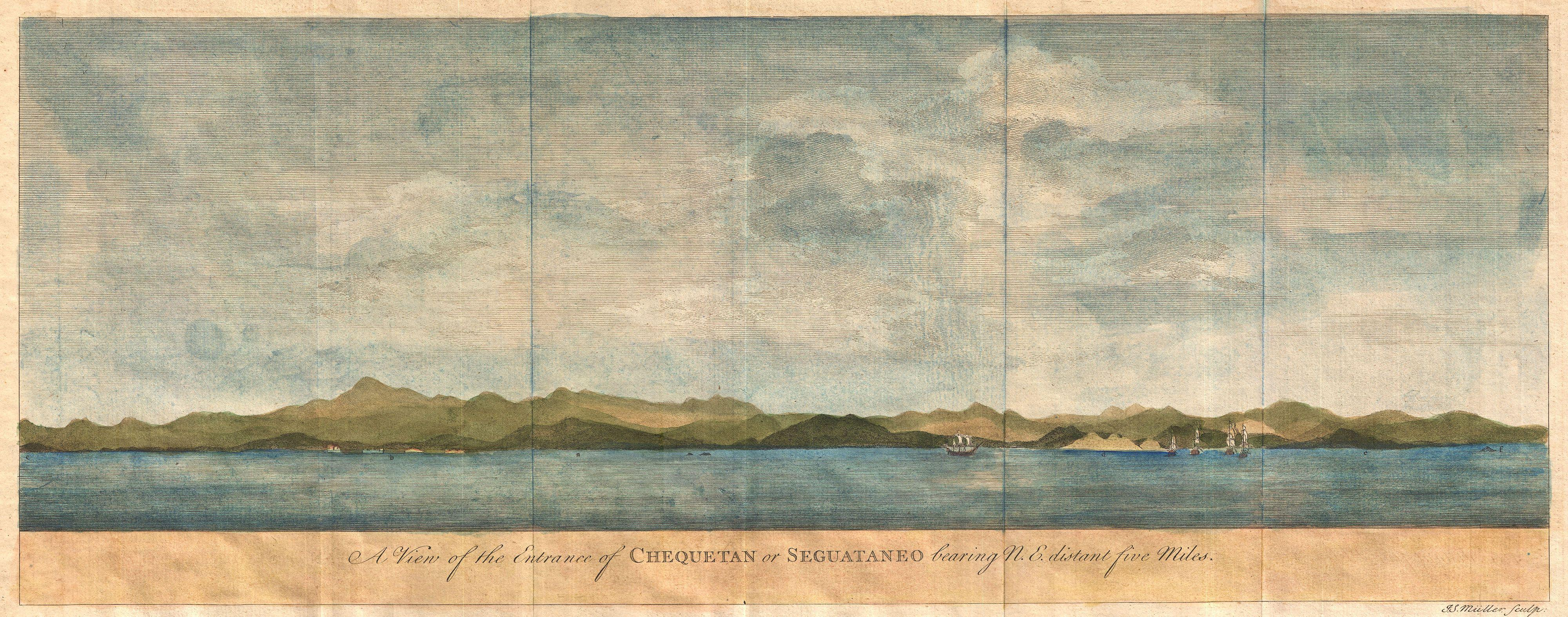 An extremely attractive 1748 coastal view of the Mexican harbor of Zihuatanejo by George Anson. Today Zihuatanejo is a stunningly beautiful resort area in Guerrero, Mexico, about 250 km north of Acapulco. This area was originally named Cihuatlán in Aztec, which means “Place of Women”, referring to the matriarchal society that dominated the region in pre-Columbian times. Details the harbor beautifully showing mountains, a fort, and several sailing vessels. Coastal views such as these were created to help early navigators recognize important coastlines from far out to sea.